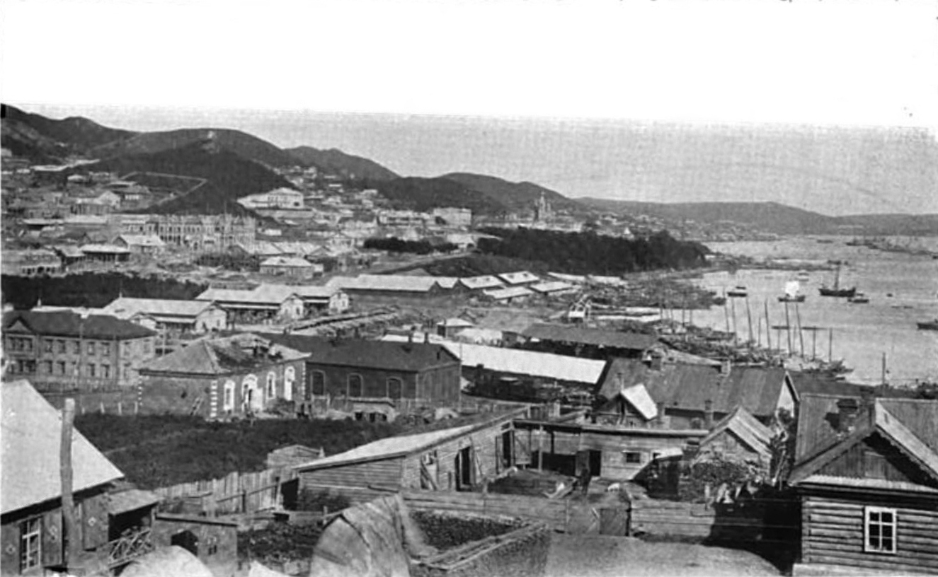 Photograph of Vladivostok, Russia from circa 1898.